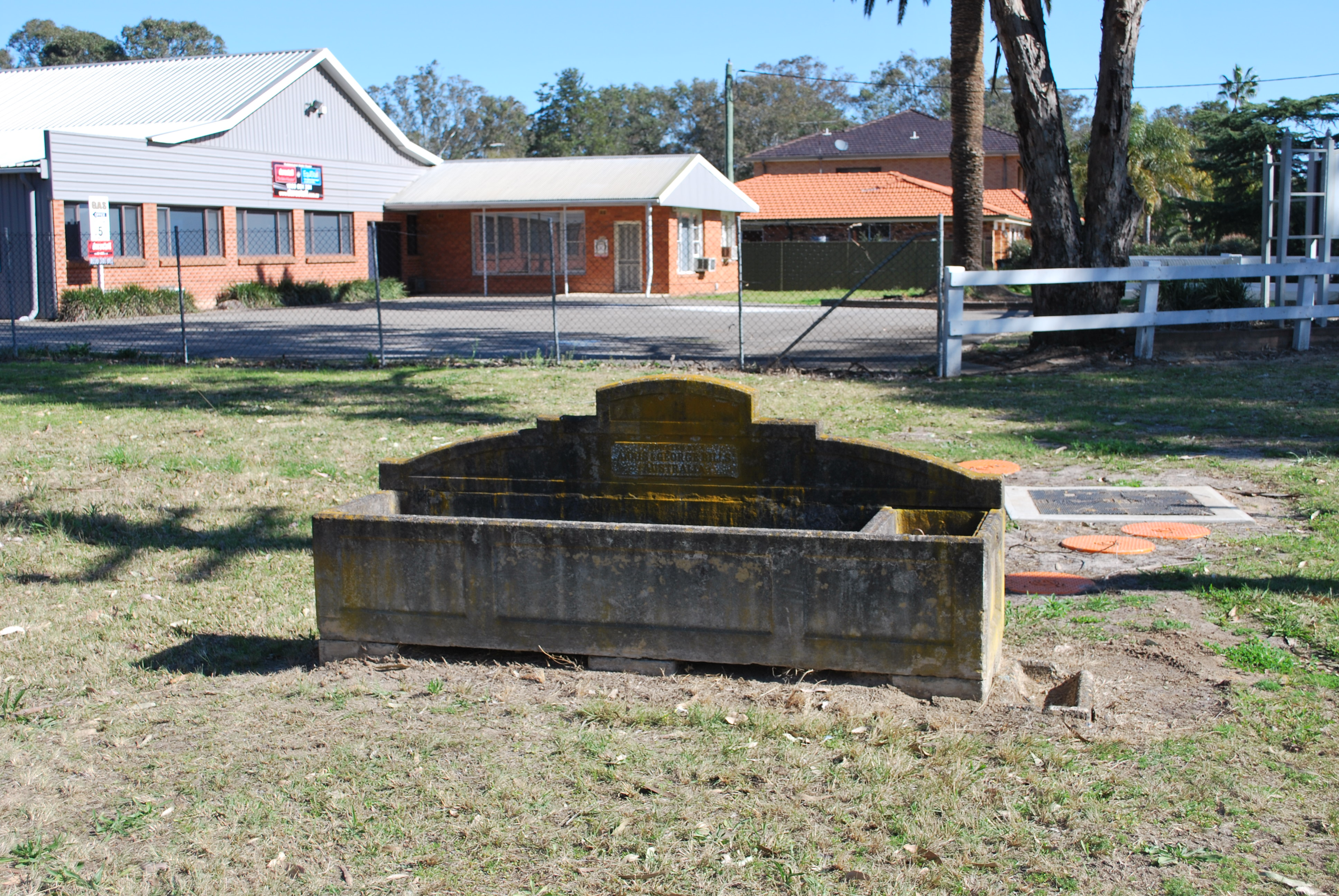 Bills horse trough at Agnes Bank, New South Wales